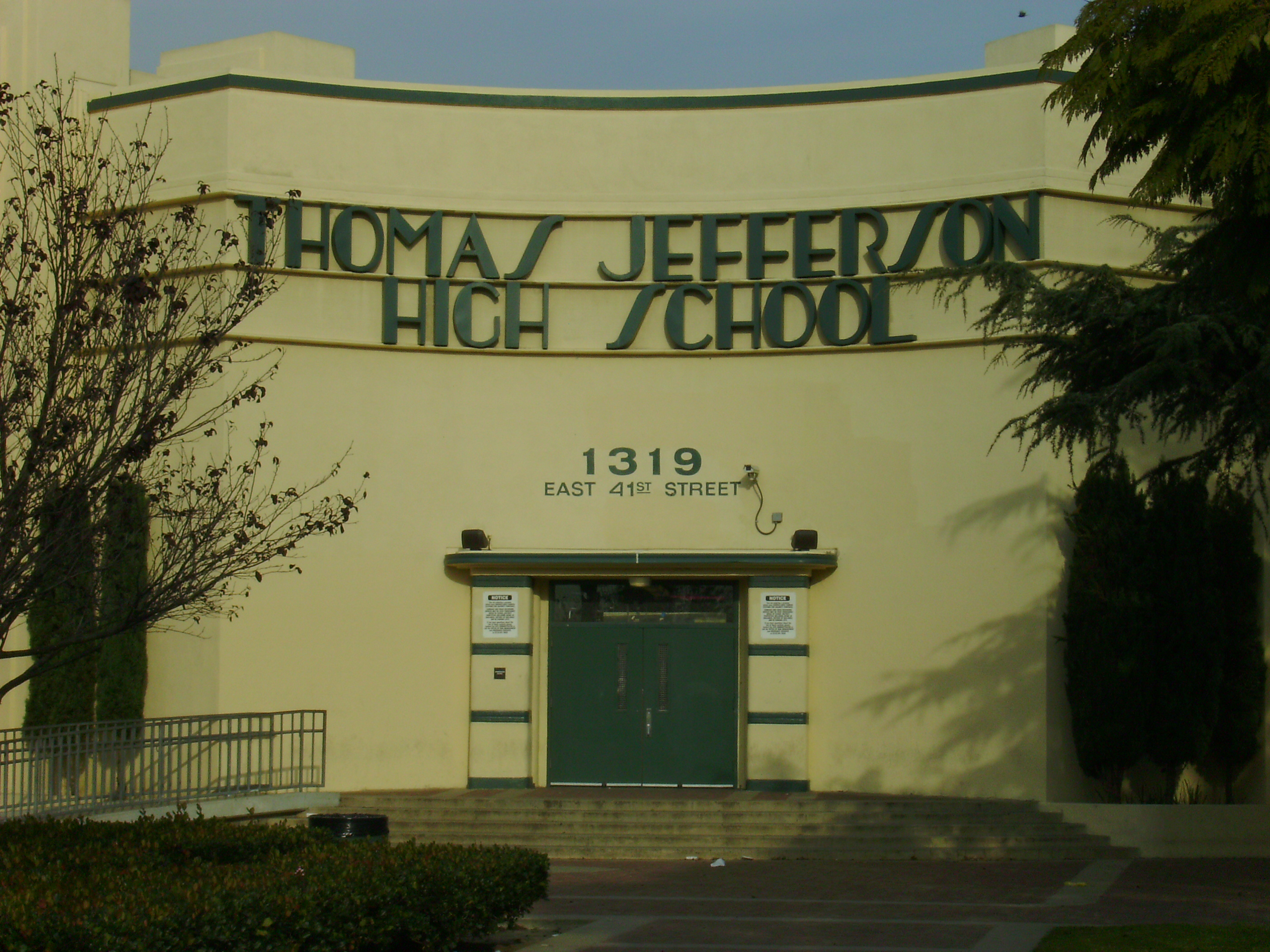 Jefferson High school front entrance focusing on school name